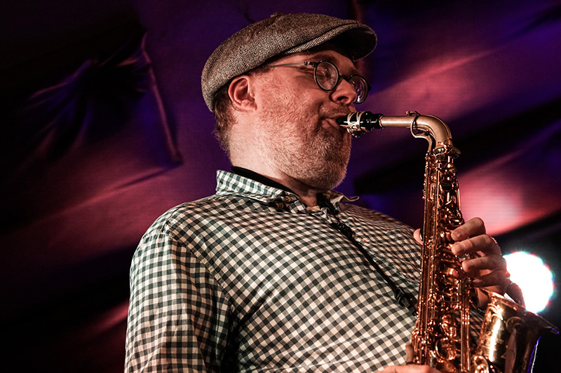 Benjamin Koppel with Koppel / Colley / Blade Collective, Aarhus Denmark 2017